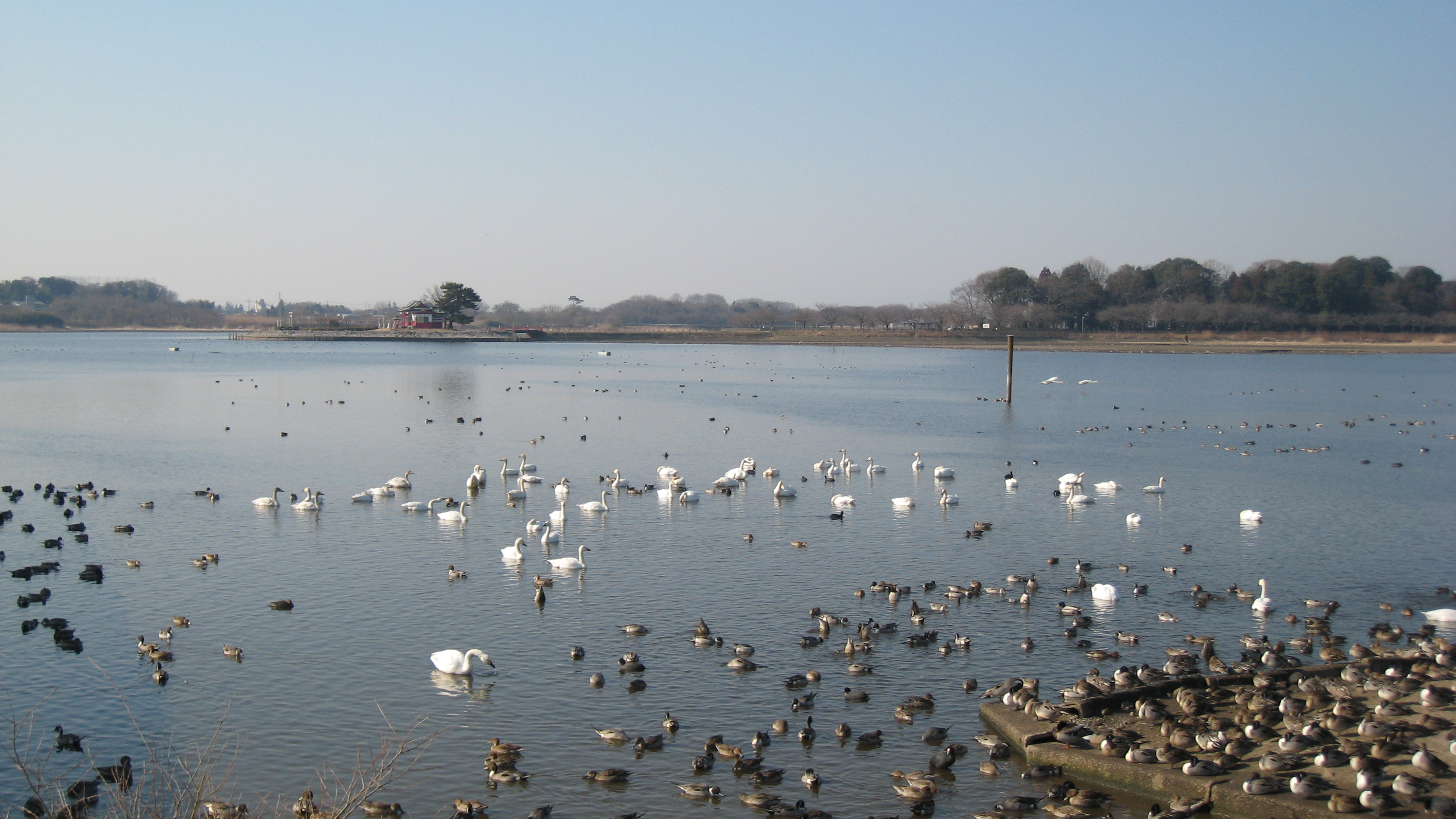 Swans at Tatara Numa in Tatebayashi city,Gunma prefecture,Japan. taken at 8,March,2008 by Taketarou